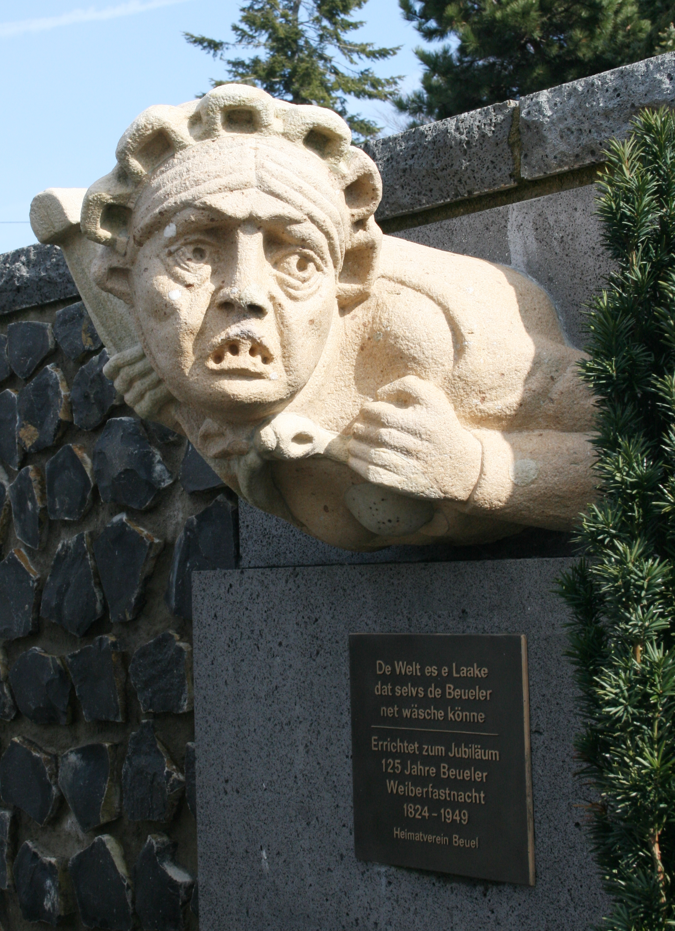 Germany, Bonn: The "Brückenweibchen" ("bridge female") on the flood protection wall in right-bank district of Bonn-Beuel. Originally it was attached to the Beuel side of the old Rhine bridge (the predecessor of today's Kennedybrücke(Kennedy Bridge), analogous to the "Bröckemännche" on the bridge door of the bridge.